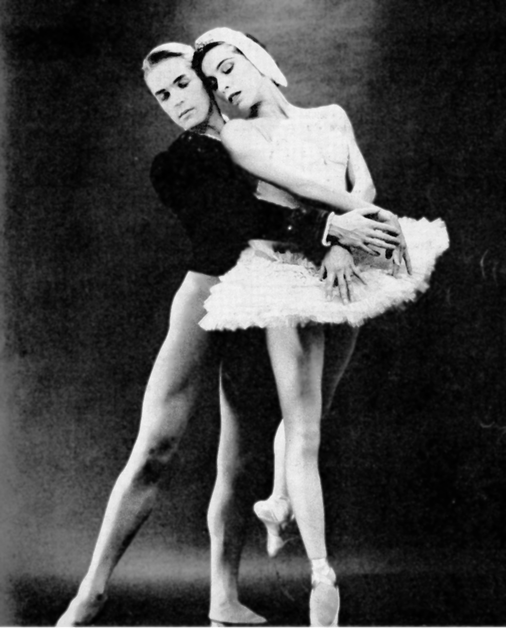 Maria Tallchief and Erik Bruhn from the front cover of Dance Magazine, July 1961